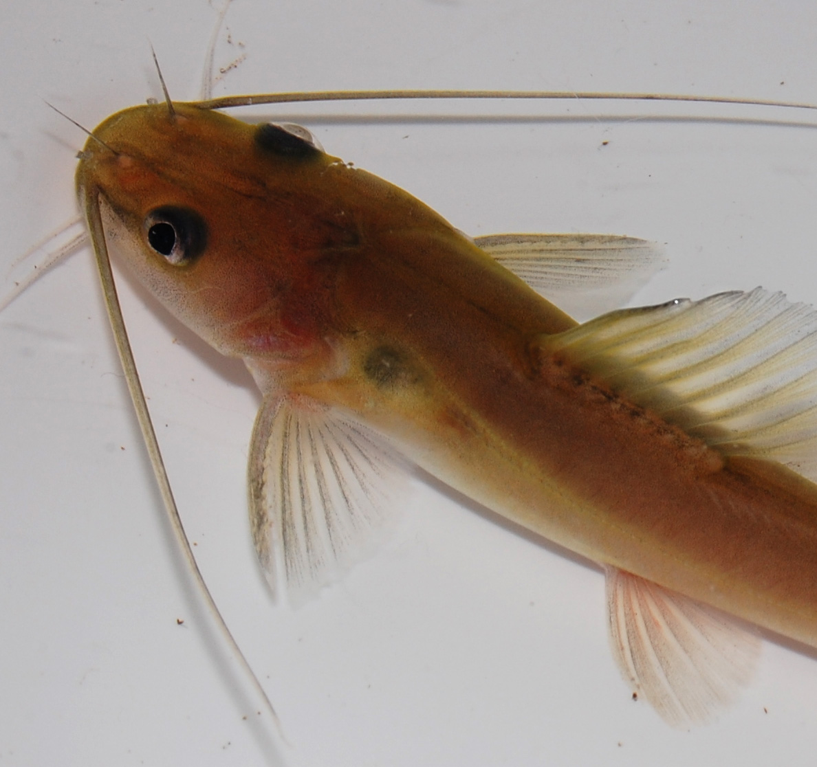 Hemibagrus planiceps (77mm SL). From Cikupret (small stream) of Cisadane drainage at Darmaga (6°34’S 106°43’E), Bogor, West Java, Indonesia